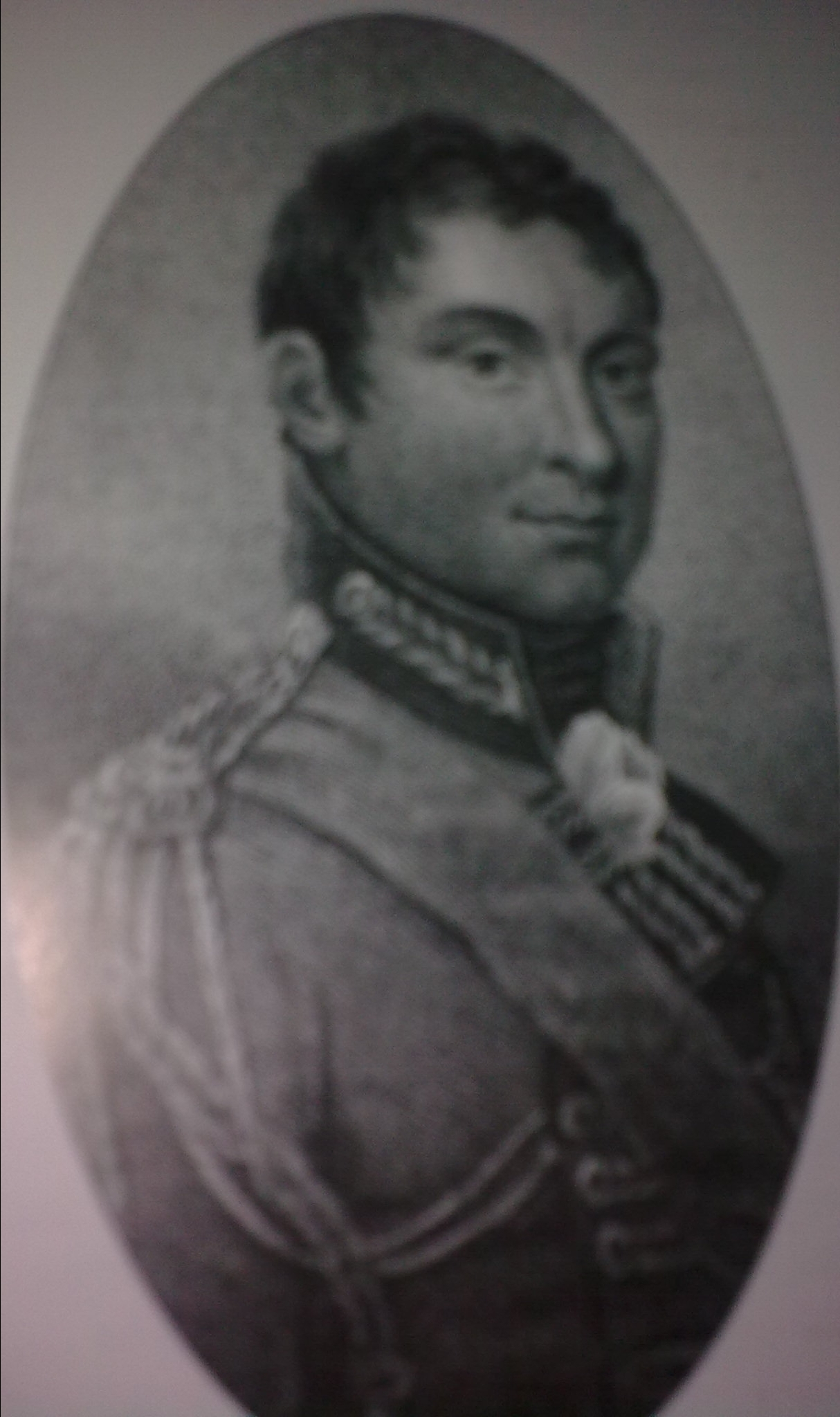 Contemporary stipple engraving of General Sir Rowland Hill of the British Army, made in 1815